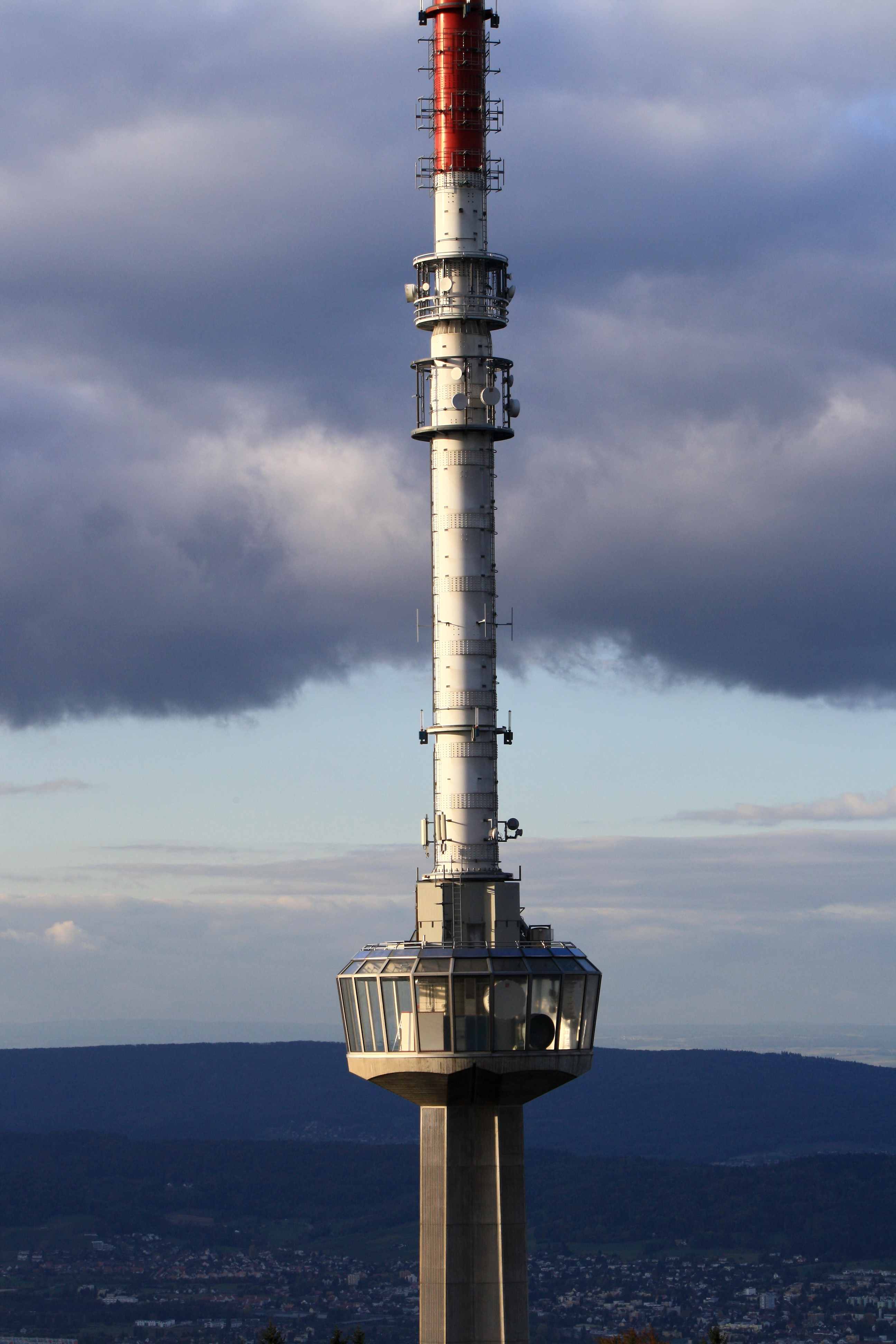 Swisscom TV-tower on Uetliberg as seen from Aussichtsturm